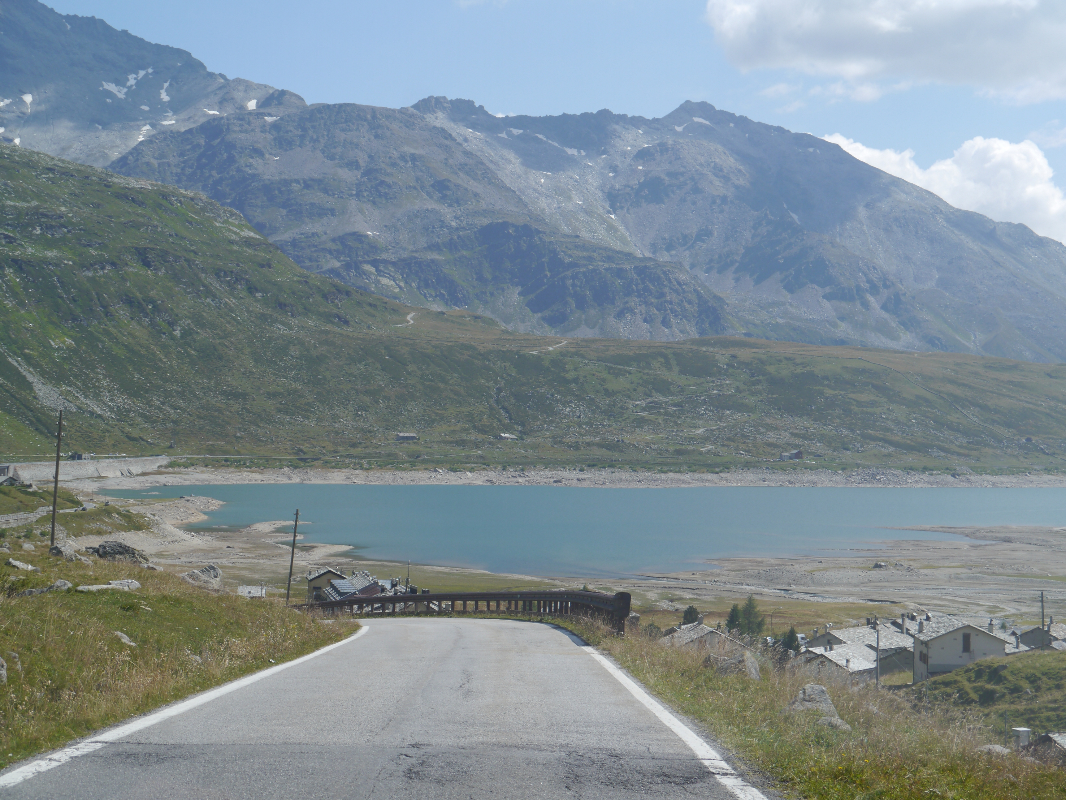 Splügen Pass, Canton of Graubünden, Switzerland